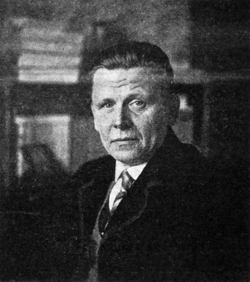 Fráňa Šrámek (1877- 1952) was Czech poet, novelist, and playwright.